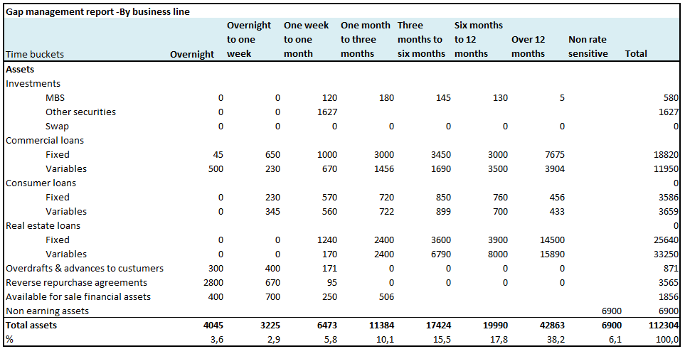 Summarises the total funding requirement of each business lines. Liability represents the funding taken by a business line. The asset pool is distributed along the same maturity buckets (expected turnover of assets and time estimated to liquidate. The gap profile displays how the asset profile differs from the liability one